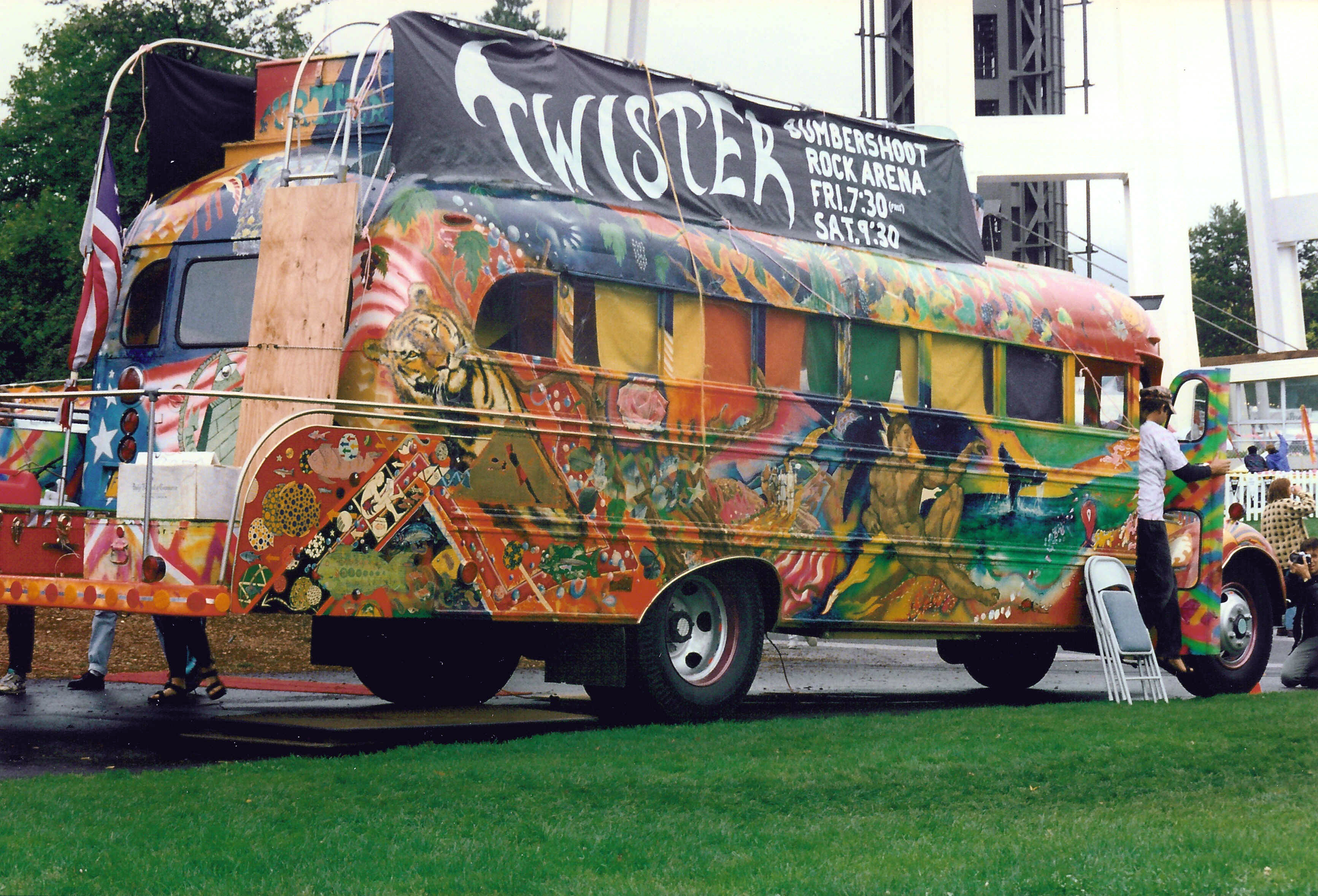 "Further" / "Furthur", Ken Kesey and the Merry Pranksters' famous bus, Bumbershoot festival, Seattle, Washington, 1994. This is the second of the two buses by this name. "Twister" was Kesey's play about the approaching millennium.